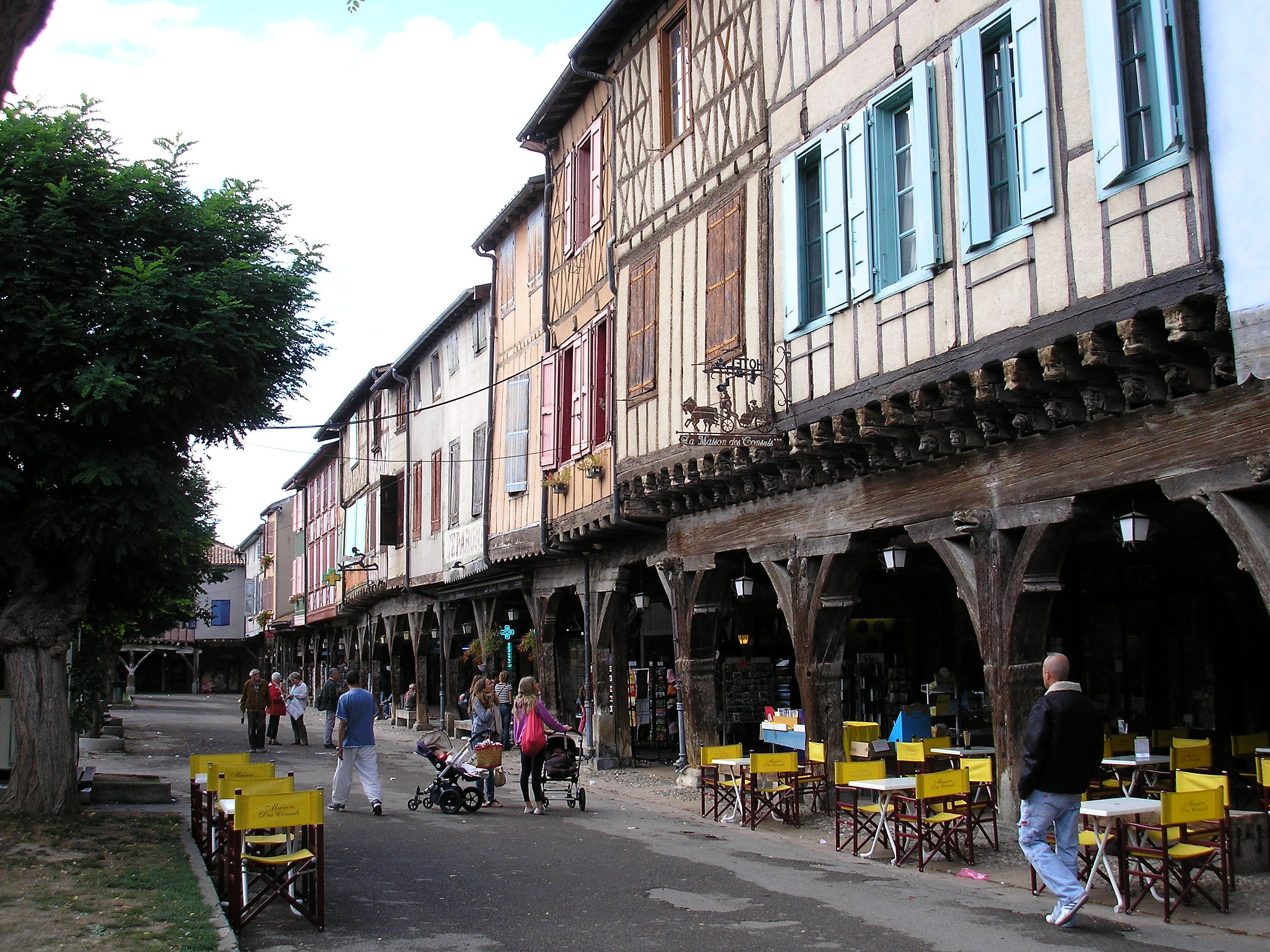 Mirepoix, medieval architecture. Camera: Olympus FE-120 6.0 Digital.